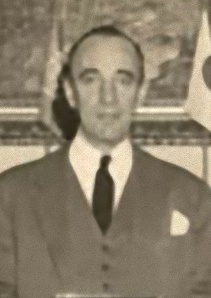 Ambassador Douglas MacArthur II, as the club's first honorary president, in 1959.